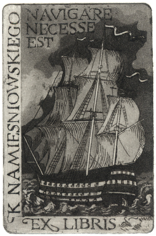 EXLIBRIS K. Namiesniowskiego - Navigare Necesse Est, akwaforta, akwatinta